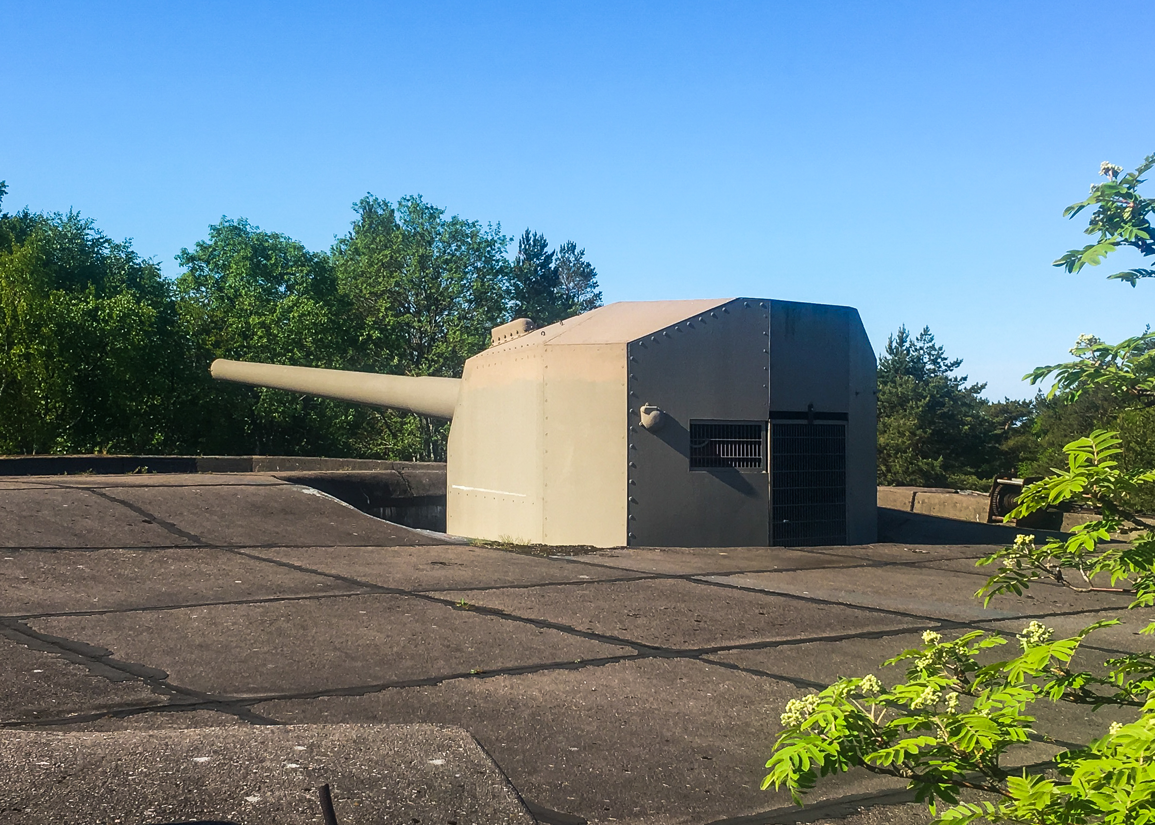 234/50 Be coastal gun on Russarö, Hanko, Finland.